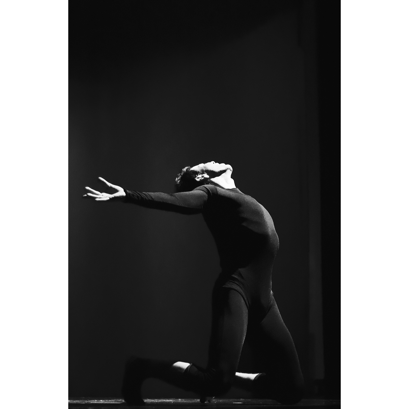 El festival de la Academia Danza del Sol México se celebra todos los años desde 2013 y es una exposición de las y los alumnos e invitados especiales (bailarines profesionales de talla internacional) y se lleva a cabo en la ciudad de Querétaro, México. En esta imagen se presenta el bailarín Jesús Tussi quien fue miembro del Ballet Nacional de México de Guillermina Bravo, esta imagen es capturada cuando presenta un extracto de su obra e interpretación libre de la ópera de "La Traviata" del compositor Giuseppe Verdi.